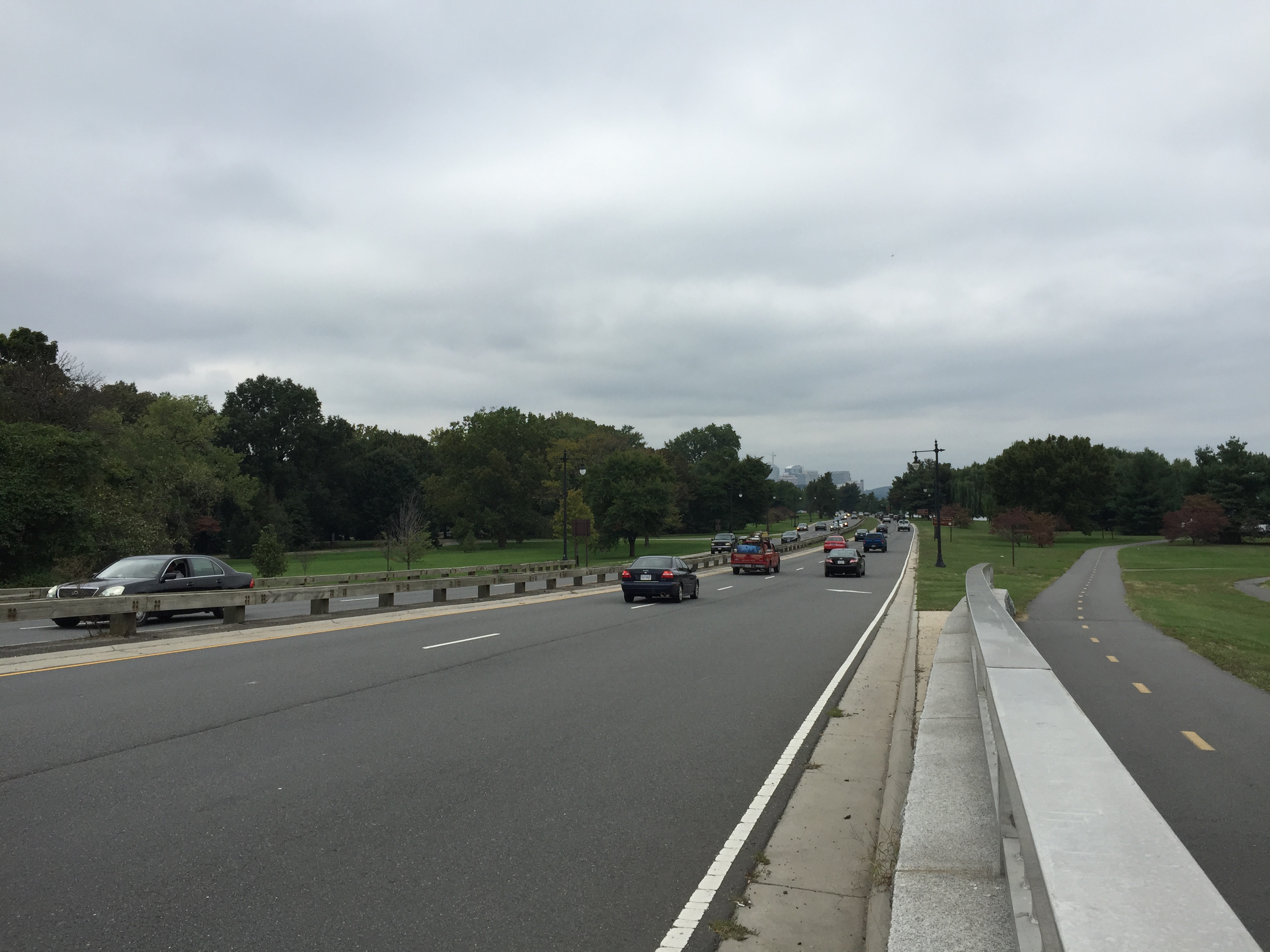 View north along the George Washington Memorial Parkway just after crossing Boundary Channel onto Columbia Island in Washington, D.C.